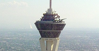 Top of Stratosphere Tower, Las Vegas, Nevada, USA